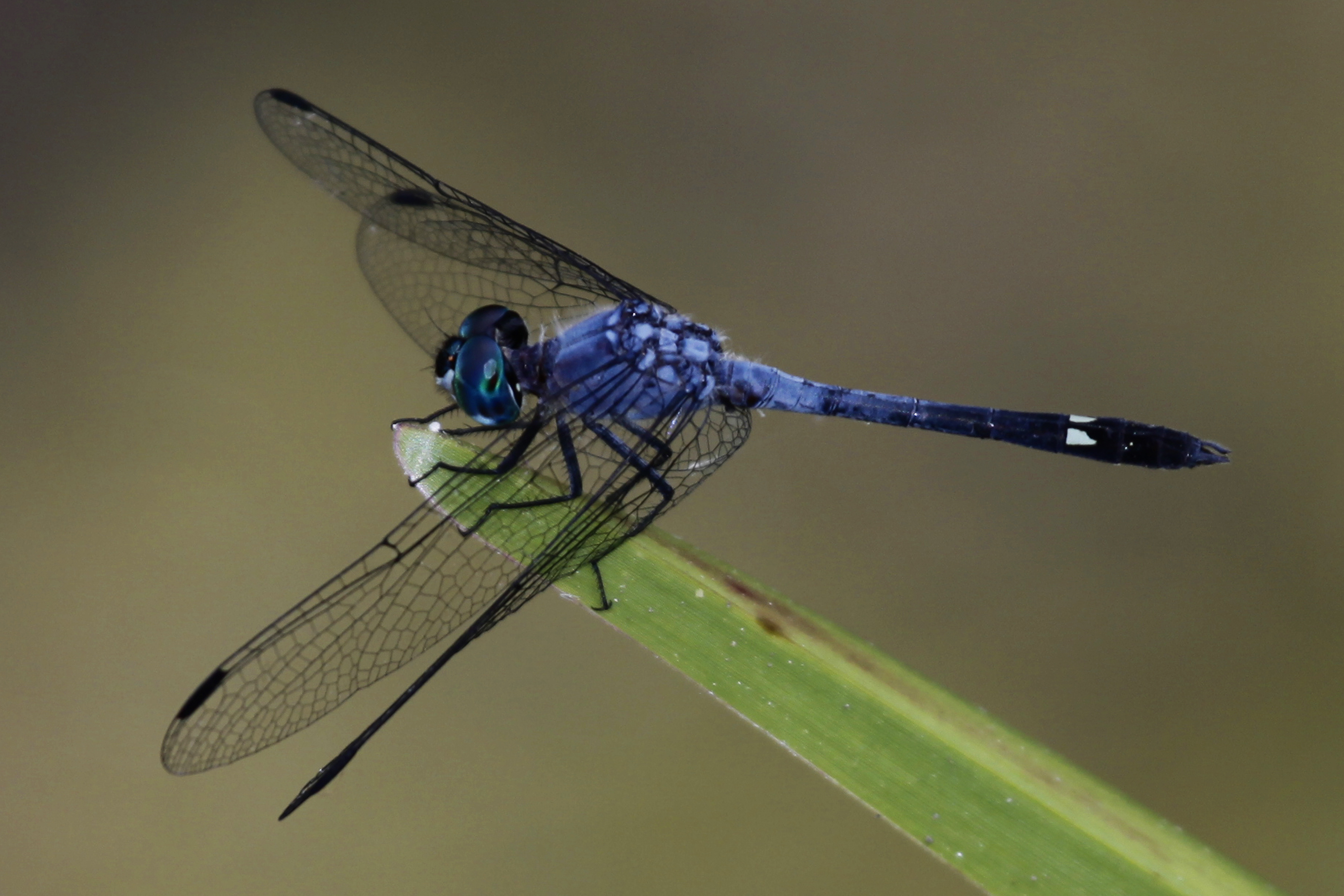 Spot-tailed Dasher - Micrathyria aequalis, Fairchild Tropical Gardens, Coral Gables, Florida